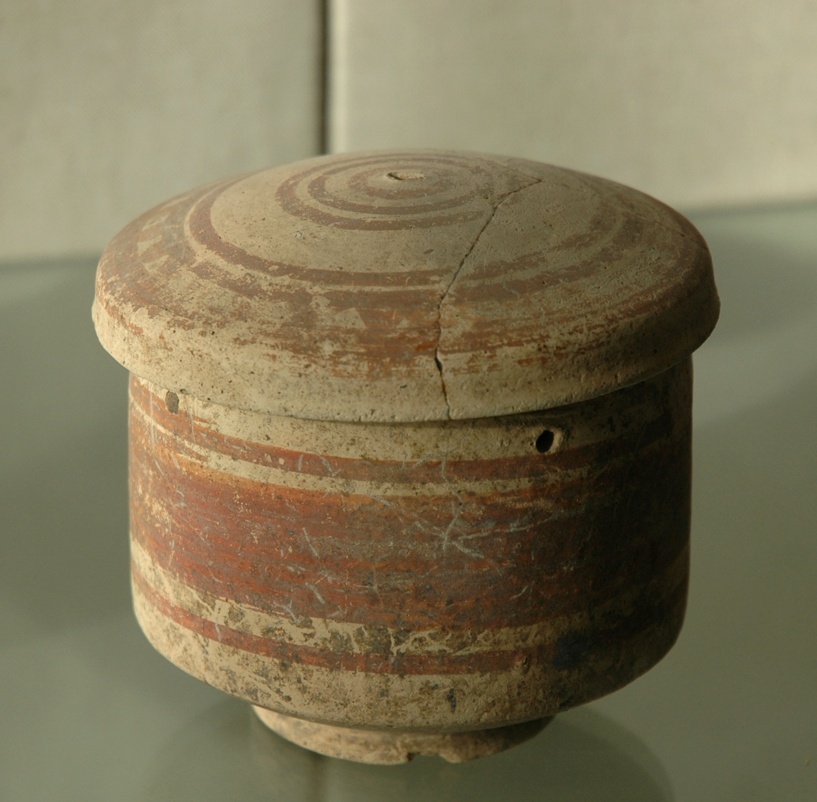 Pot and lid. Terracotta with painted decoration, Late Bronze I, found in Ras Shamra (ancien Ugarit), low town East, tomb 53.